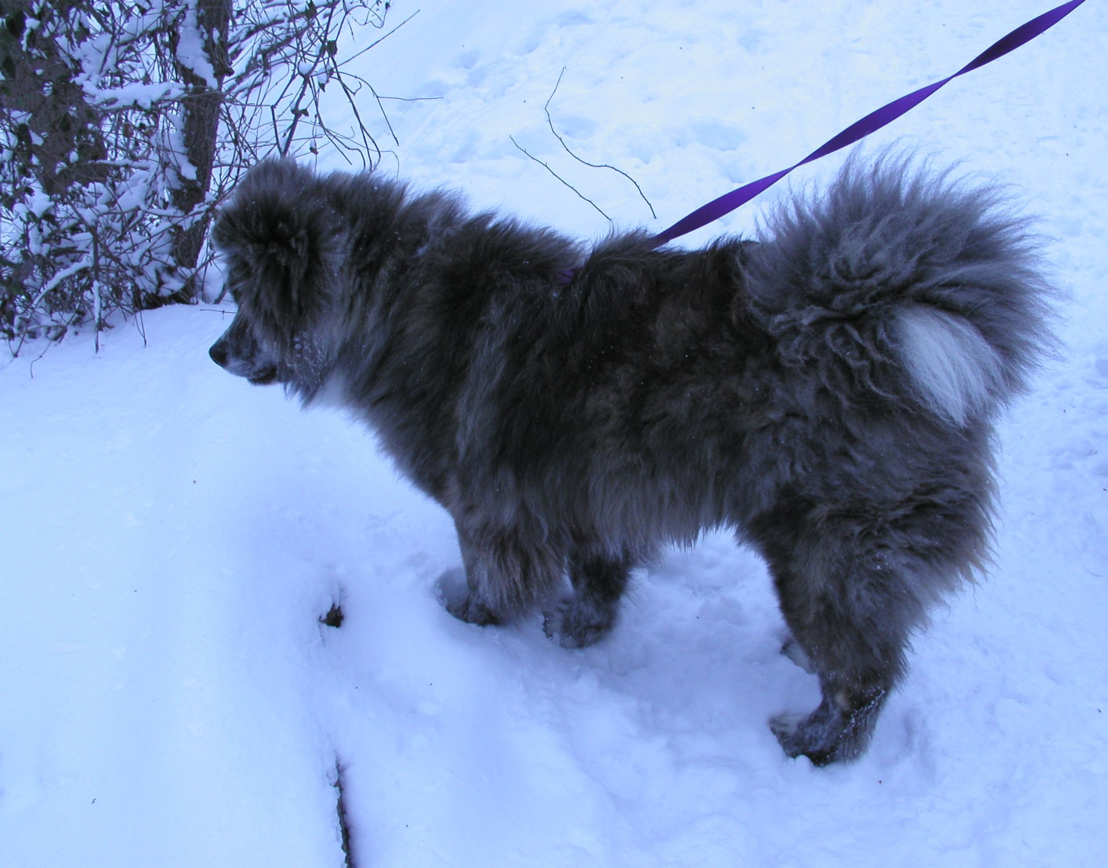 Akita Inu in snow. Brindle pattern, moku (long fur mutation), unclipped.